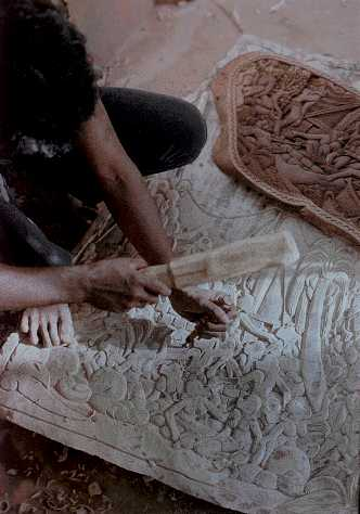 Palauan Storyboard Carving at work